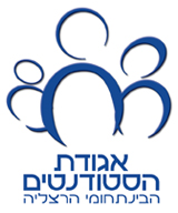 IDC Student Union Logo Hebrew